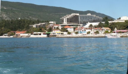 Institute Igalo seen from the Kotor bay